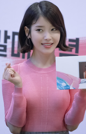 IU at a signing event at COEX on April 27, 2017.